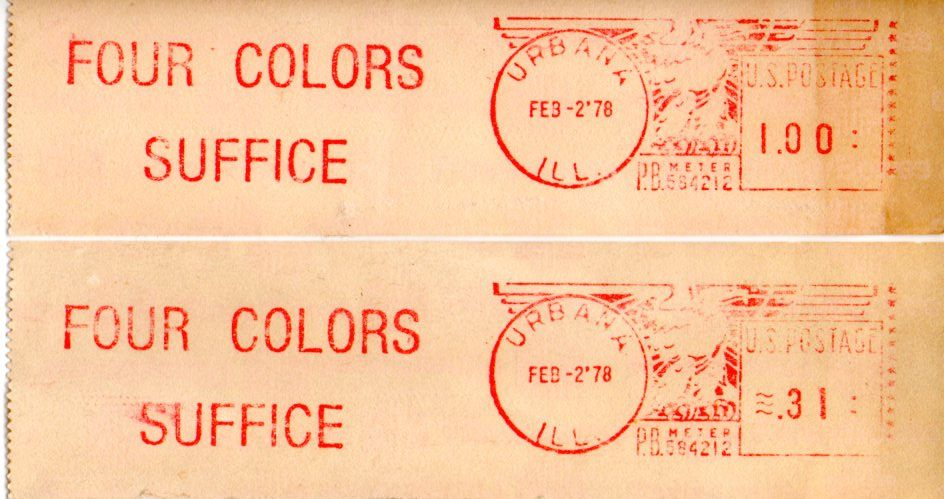 Postage stamp FOUR COLORS SUFFICE issued by the mathematics department at UIUC (Urbana) after the Appell/Haken computer proof of the Four Colors Theorem in 1976.